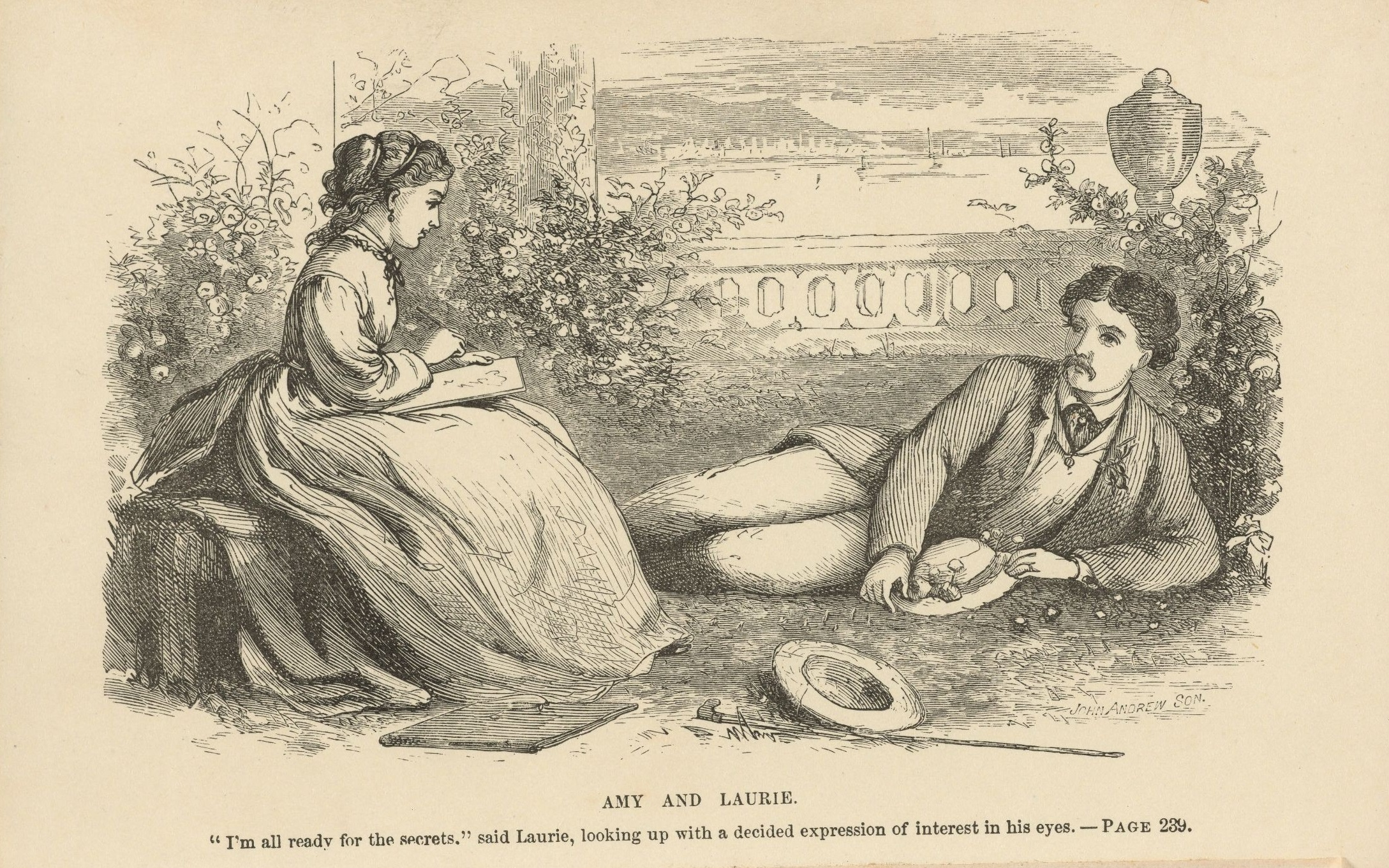 Frontispiece illustration from part 2 of Little Women by Louisa May Alcott (1832-1888), illustrated by her sister May Alcott. Boston: Roberts Brothers, 1869. *AC85.Aℓ194L.1869 pt.2aa, Houghton Library, Harvard University